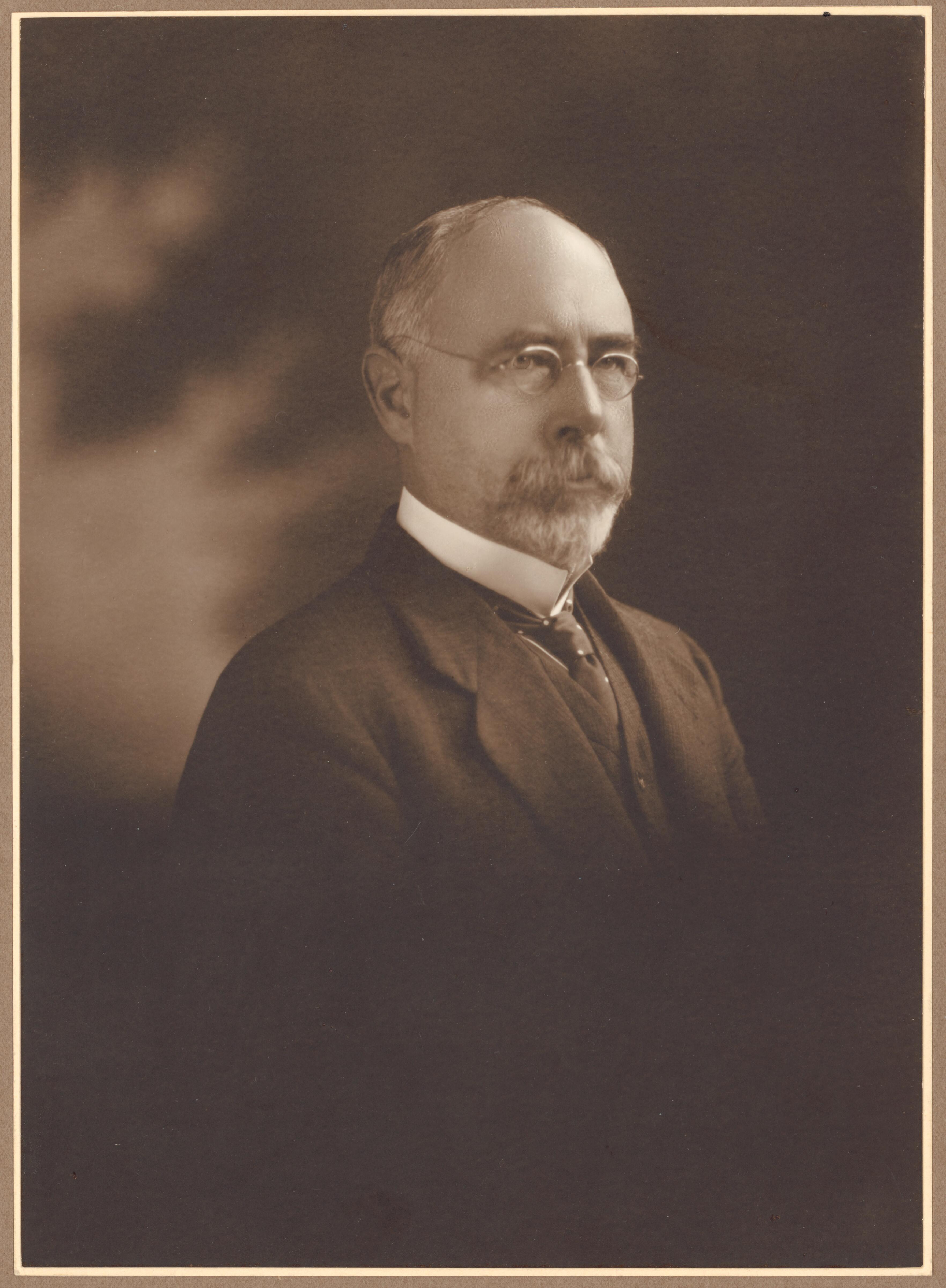 William McMillan (Australian politician) in later life